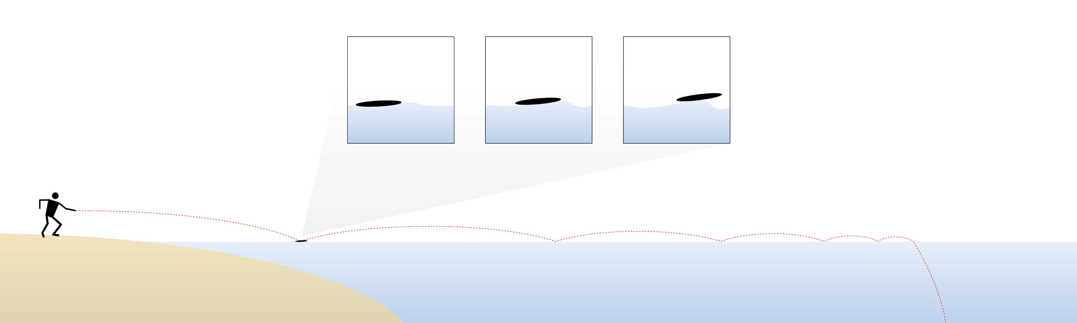 diagram of stone skipping